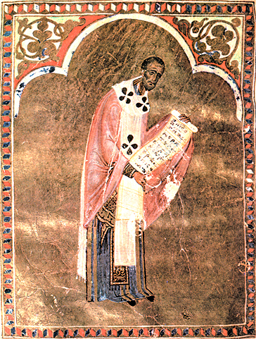 miniature of John Chrysostom from Missal of Przemysl`s Ortodox Bishop Antony from 13th century